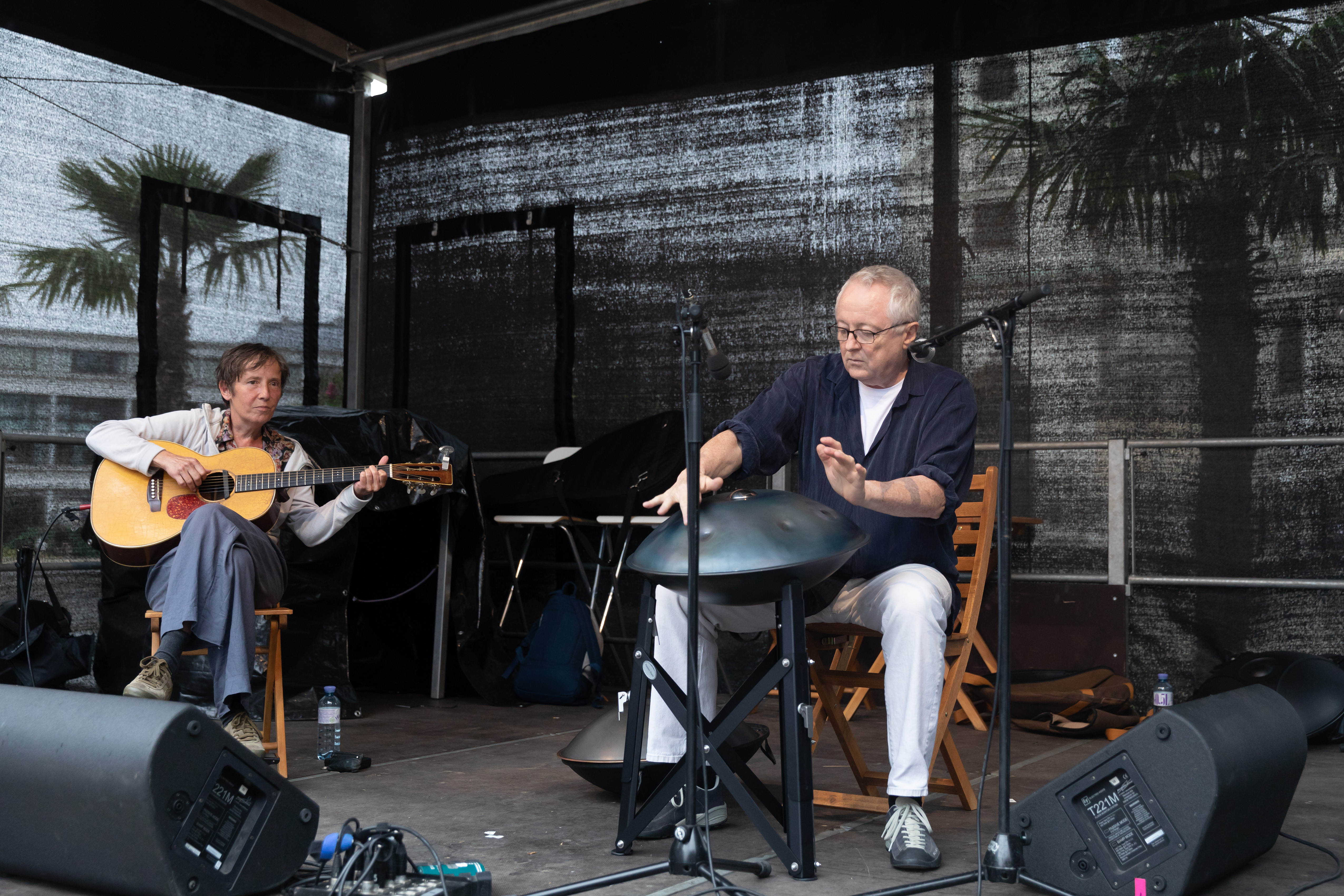 Miki Liebermann (Git.) and Peter Rosmanith (hang) at a protest against the governments plans for the public broadcaster ORF (Karlsplatz, Vienna, Austria).